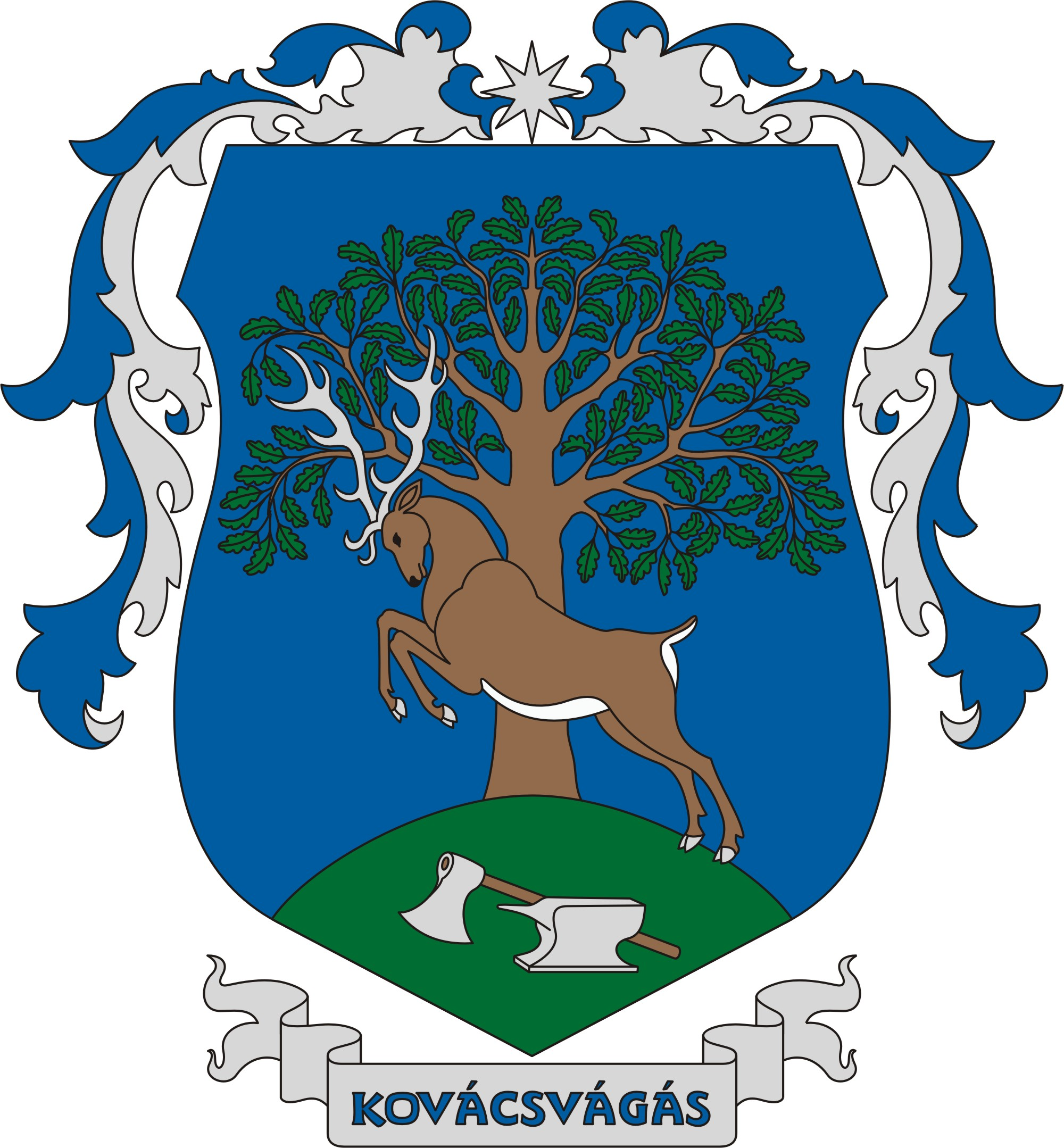 Coat of arms of Kovácsvágás, Hungary